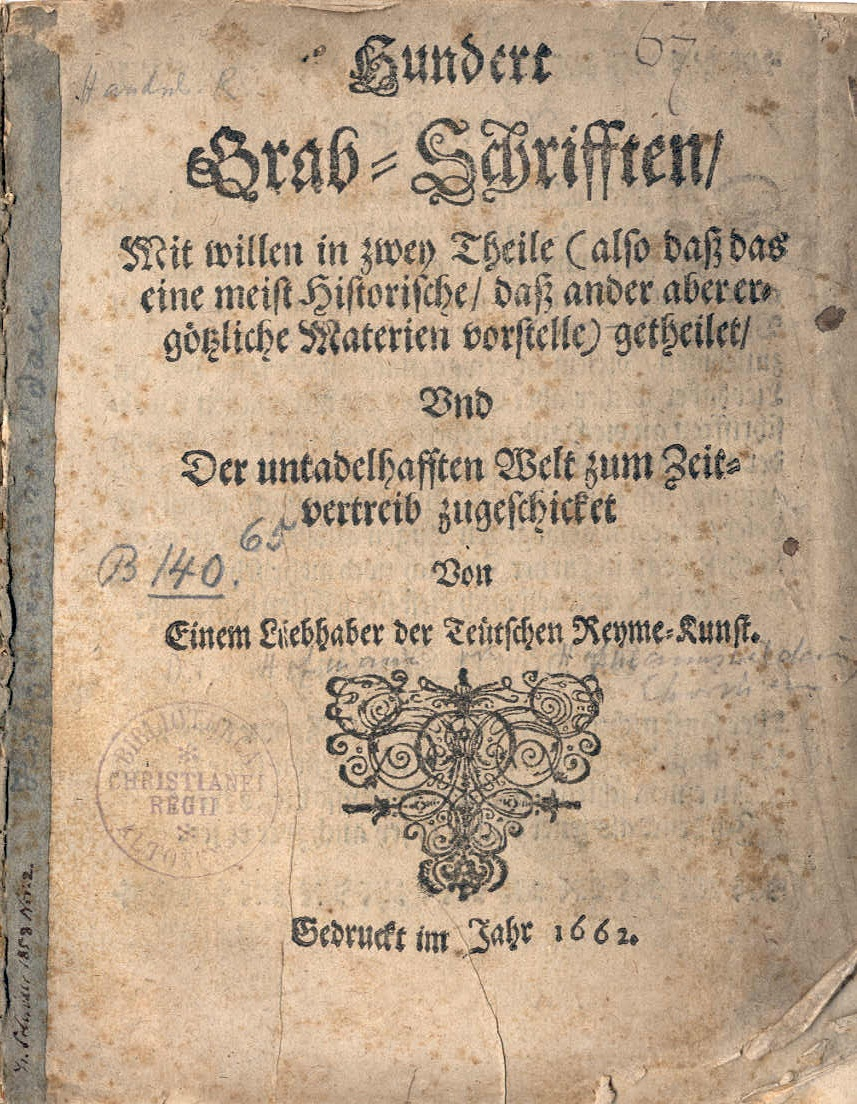 This is a scan of the historical document